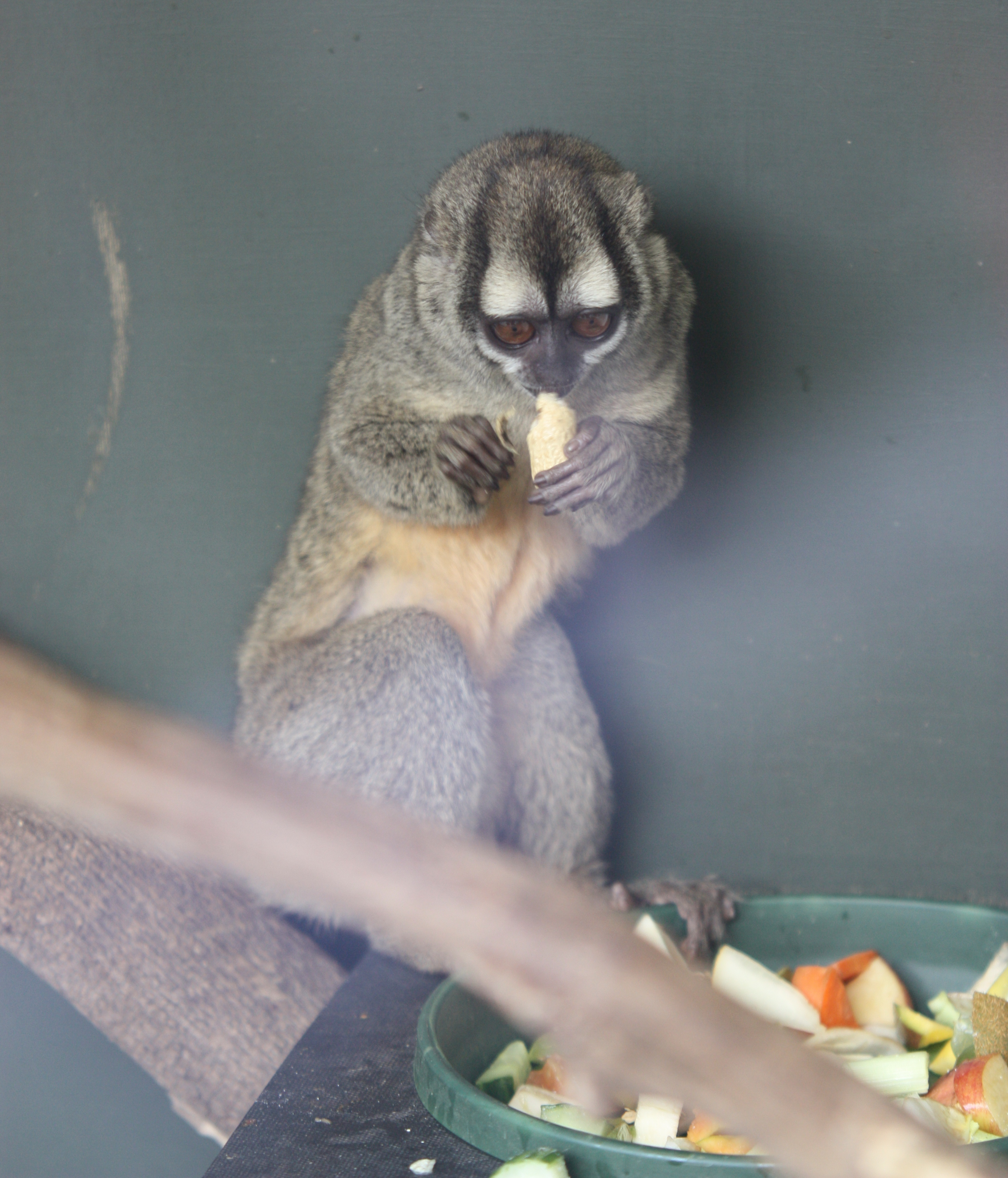 A Gray-handed Night Monkey at Marwell Wildlife, Hampshire, England.